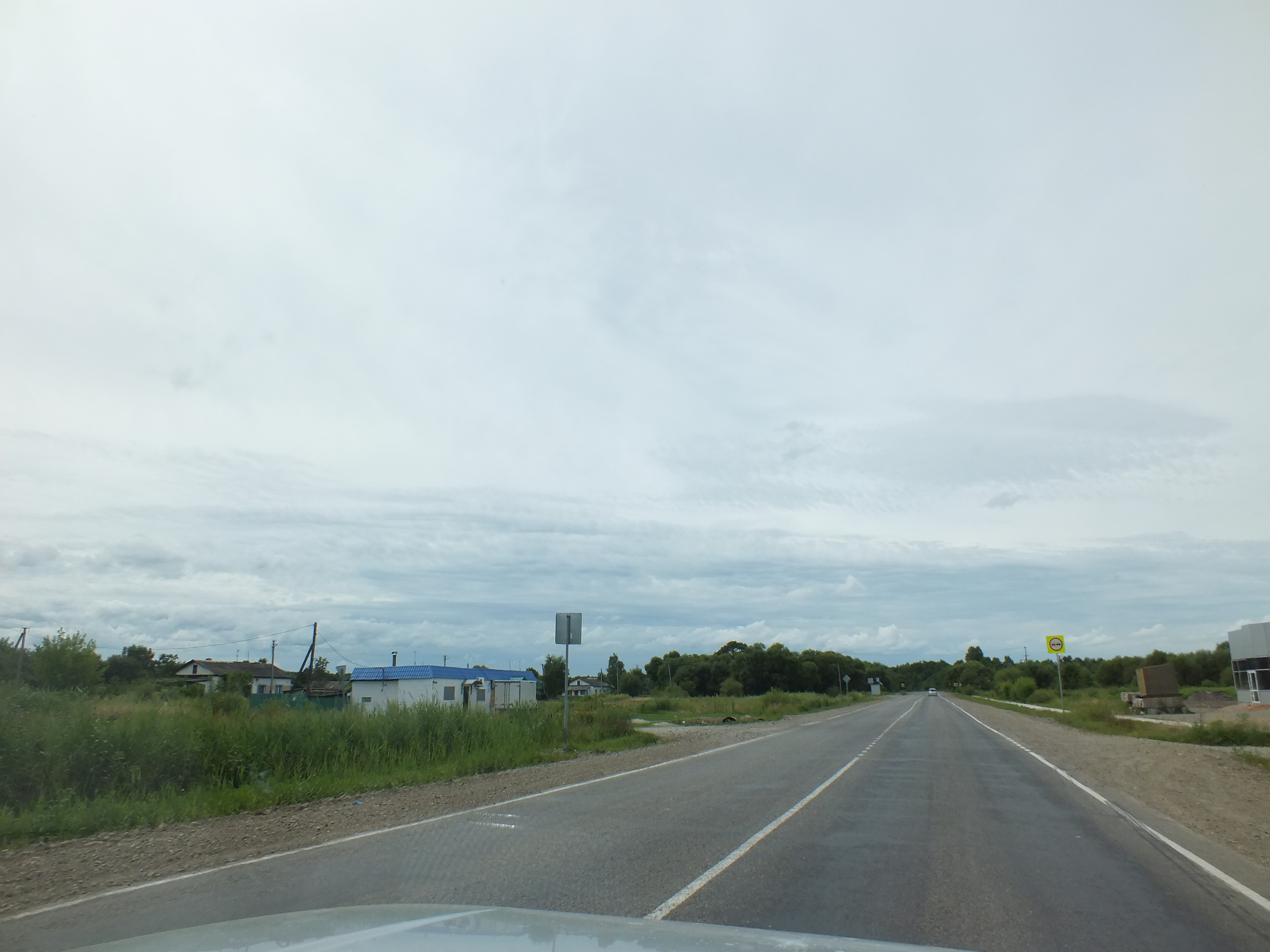 Avan Khabarovskiy kray